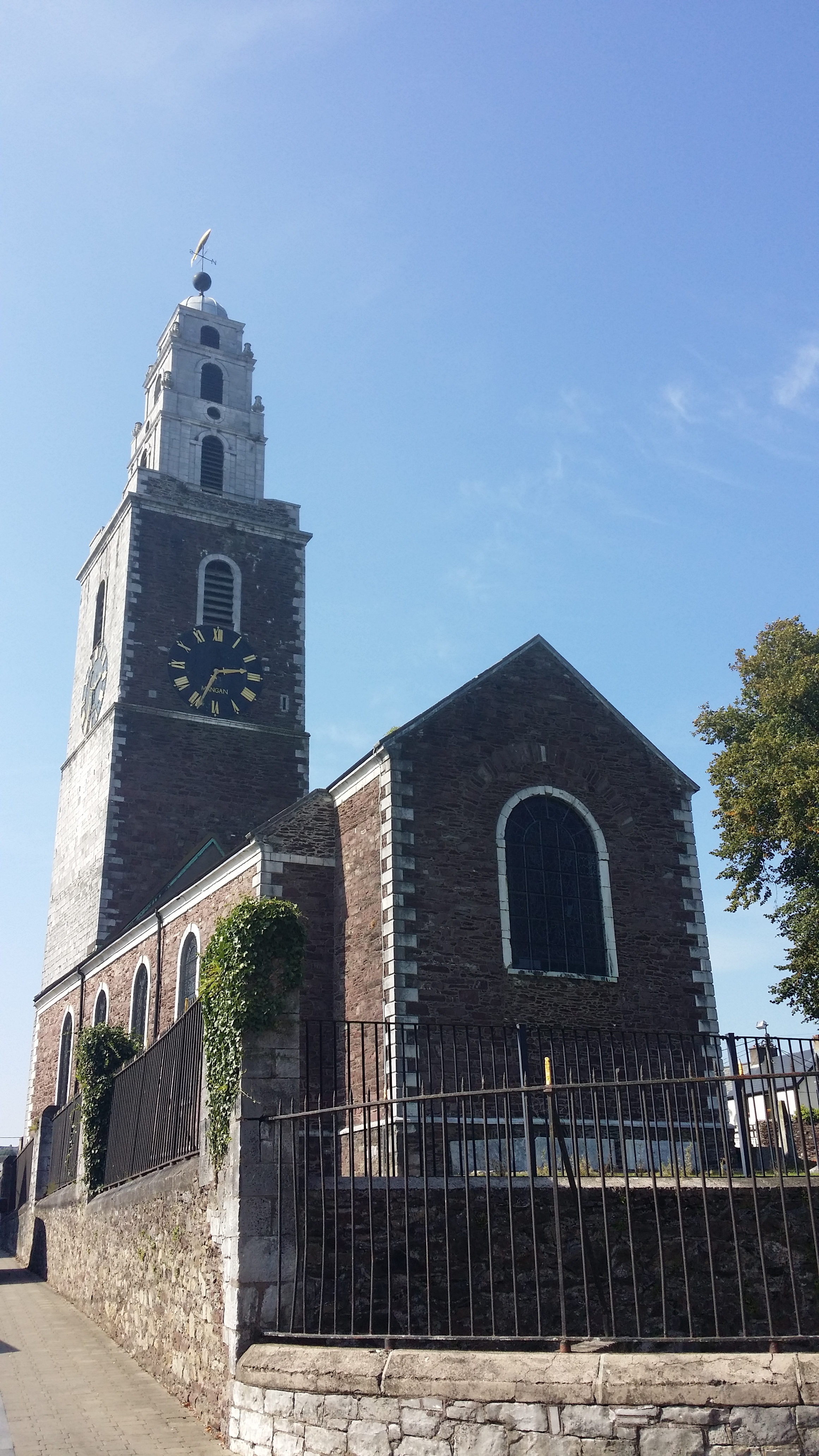 St Annes Church Shandon